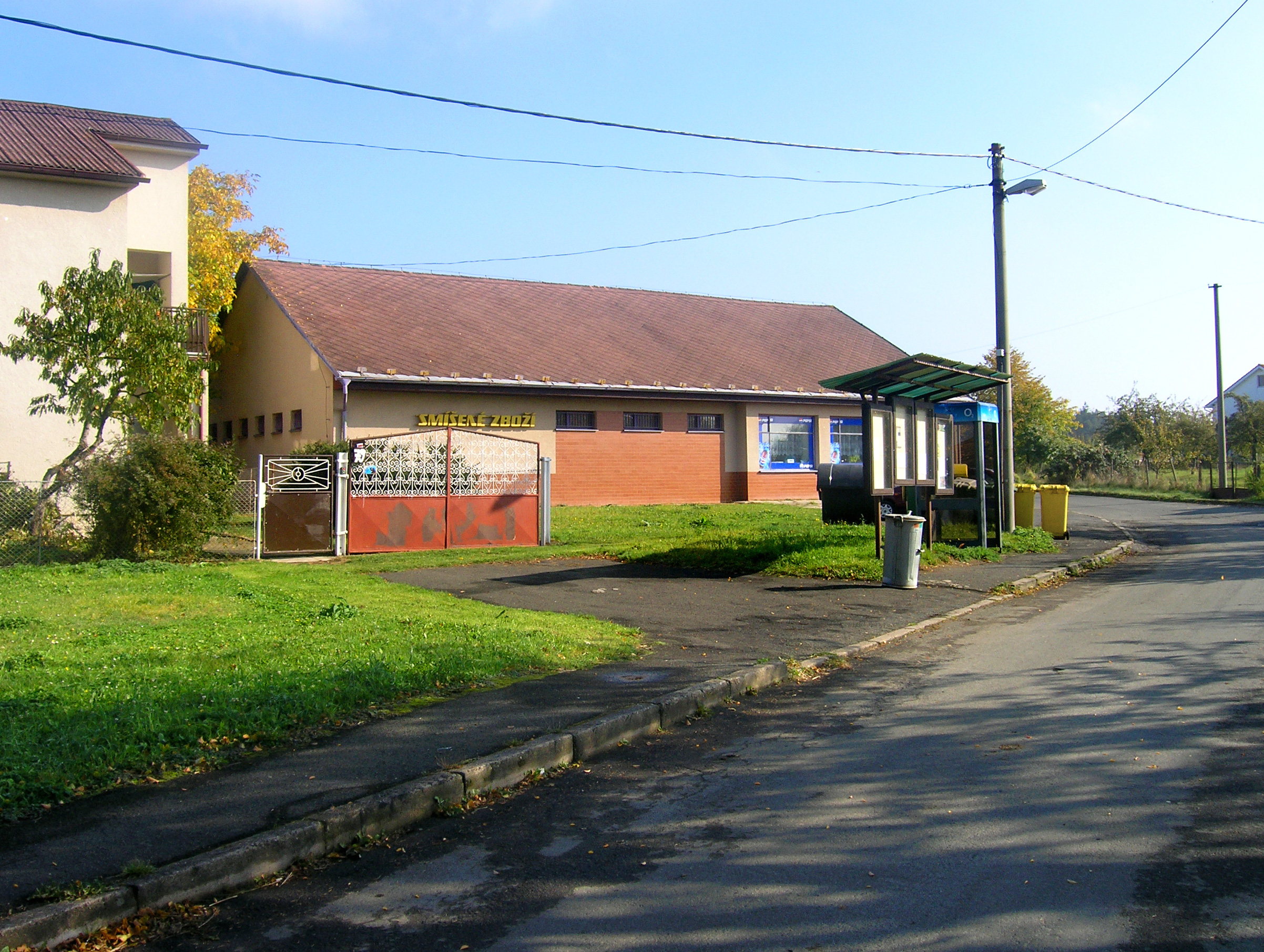 Hněvkovice village, Havlíčkův Brod District, Czech Republic